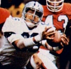 Dallas Cowboys' wide receiver Butch Johnson catching a touchdown pass against the Denver Broncos in Super Bowl XII.